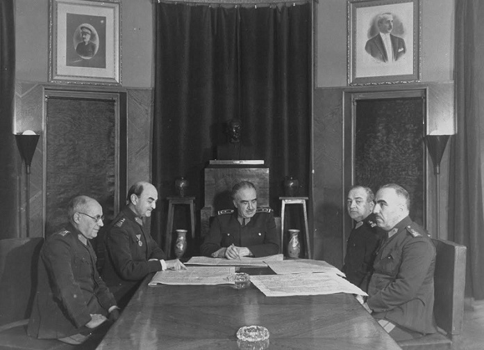 General Staff of the Republic of Turkey (in the middle: Fevzi Çakmak), 1940s.